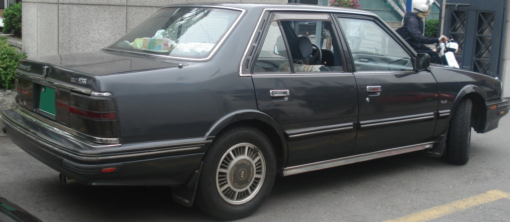 Kia Concord